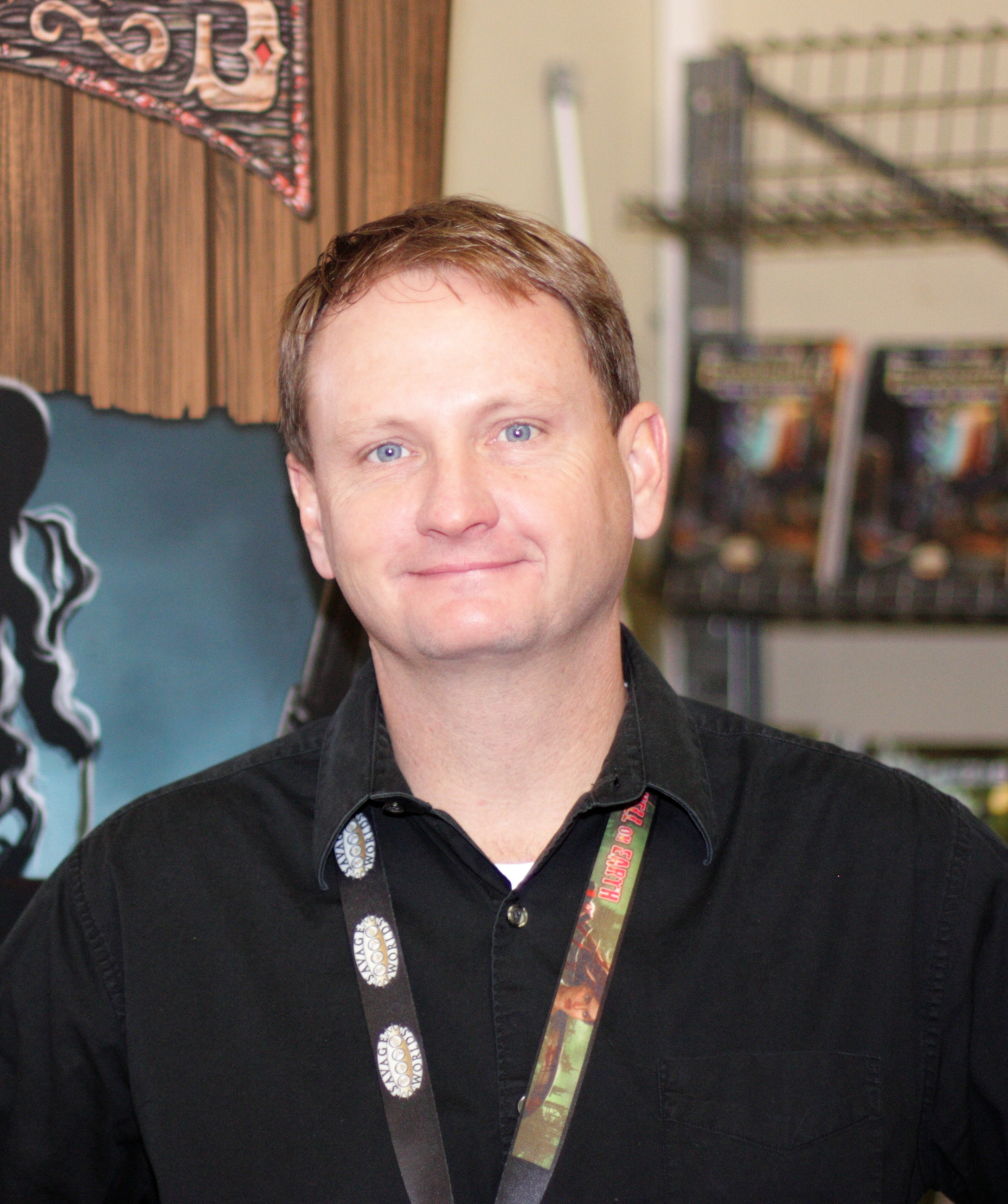 Roleplaying game author Shane Lacy Hensley at PLAY: The Games Festival in Modena, 11 April 2015